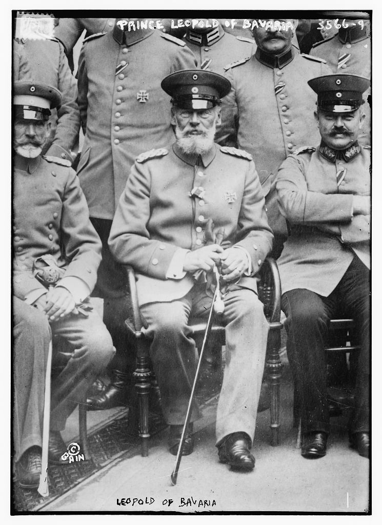 Prince Leopold of Bavaria circa 1915